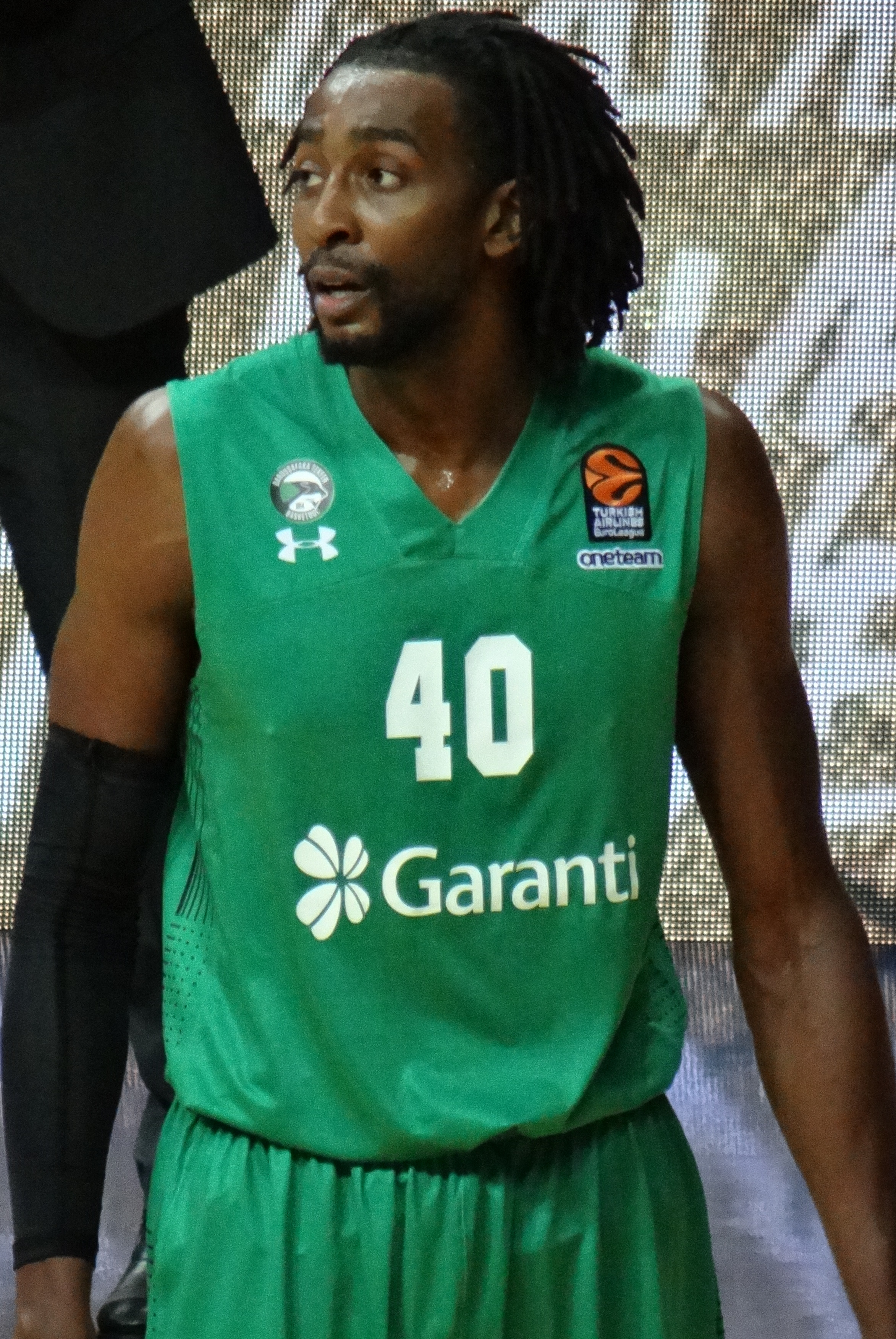 Jeremy Evans 40 Darüşşafaka Tekfen 20181120